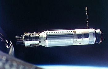 Close-up on orbiting Agena D rocket stage